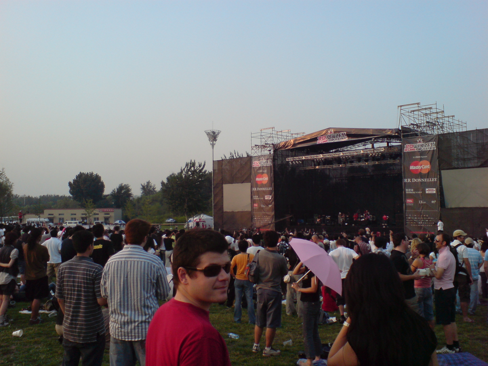 A performance at the Beijing Pop Festival, held annually in Chaoyang Park in Beijing, China.